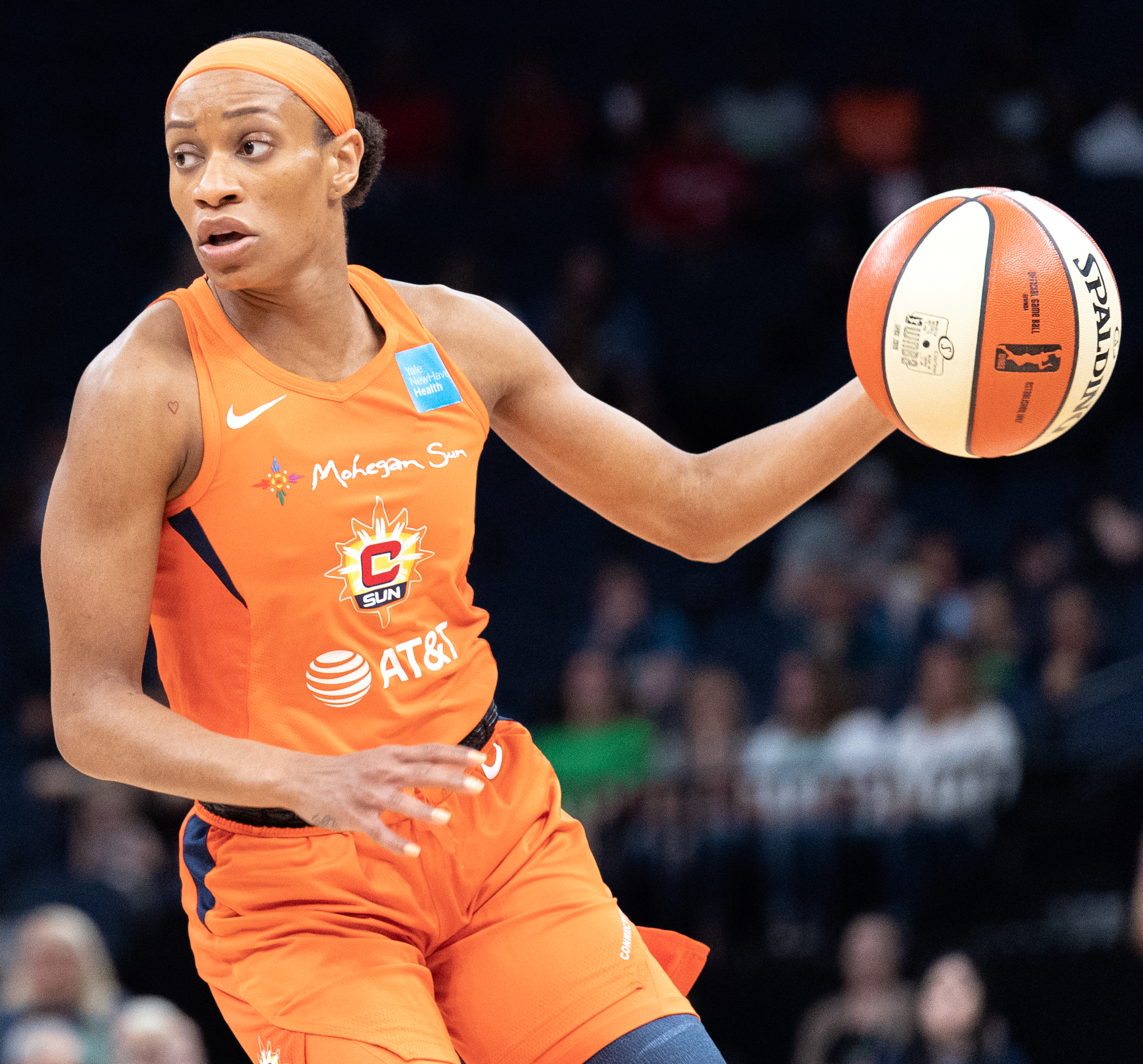 Connecticut Sun player Jasmine Thomas in a game against the Minnesota Lynx